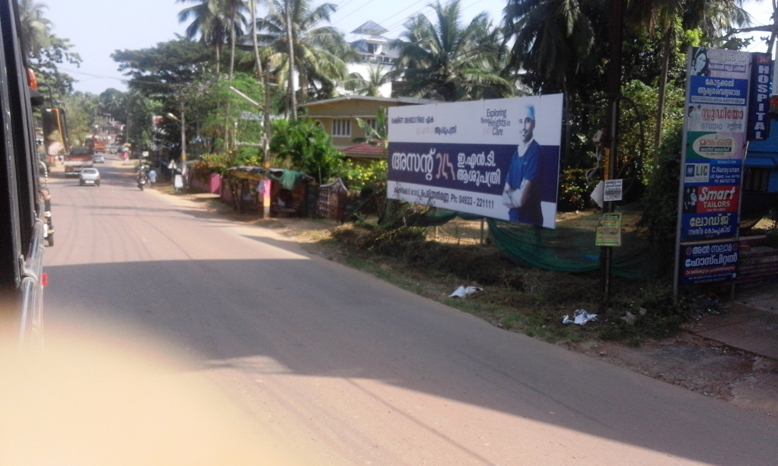 Melattur Junction, Near Perinthalmanna, Malappuram, India.